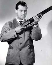 Italian Olympic shooter Galliano Rossini